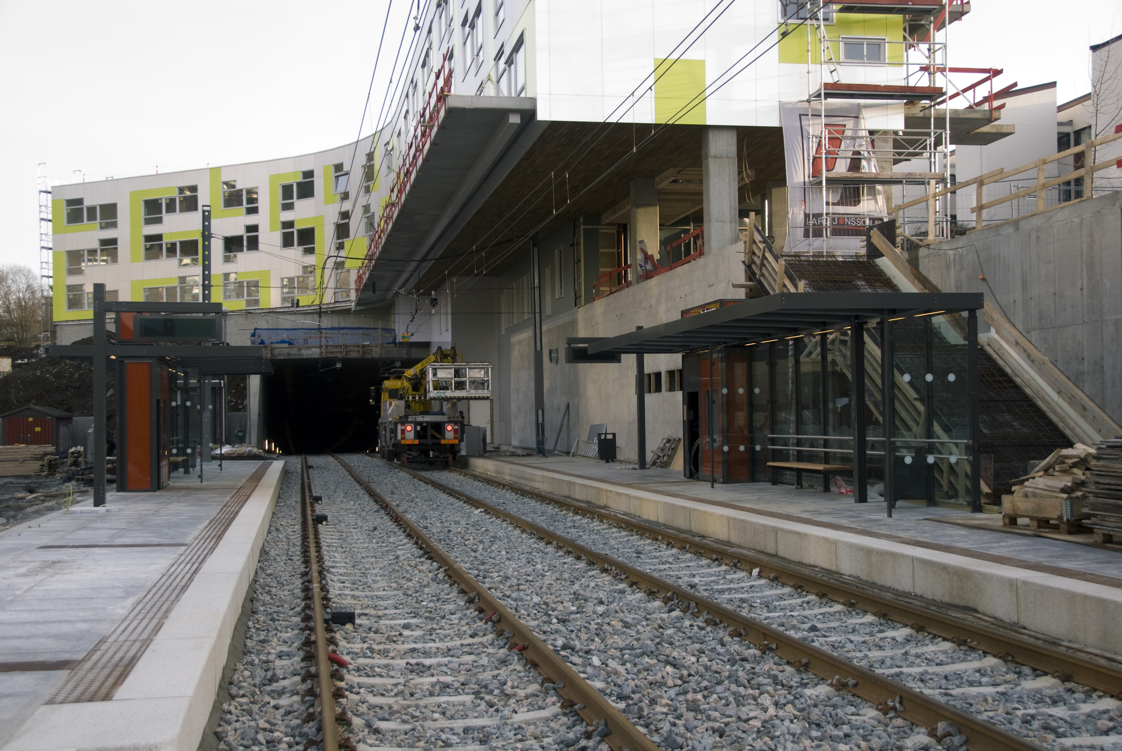 Fantoft Station of the Bergen Light Rail